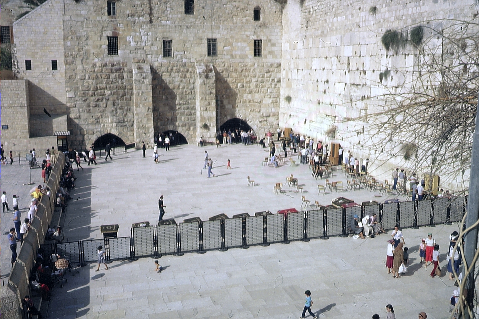 The Western Wall at Jerusalem